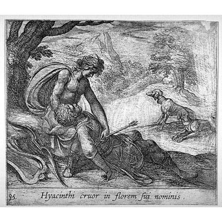 The Latin inscription indicates that Hyacinth's blood produces the flower that bears his name, the hyacinth.